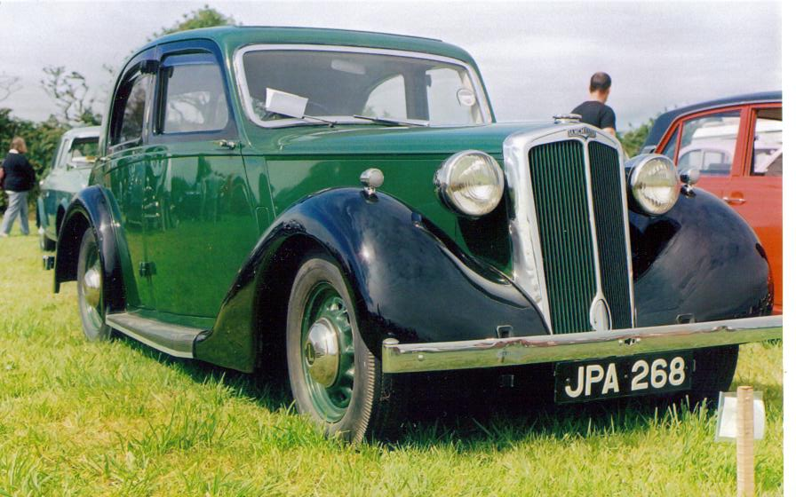 Lanchester 14 roadrider Deluxe JPA268 14 hp Purchased 1989 Fluid Flywheel Pre- Select Gears (DVLA) first registered 8 June 1939, 1701cc